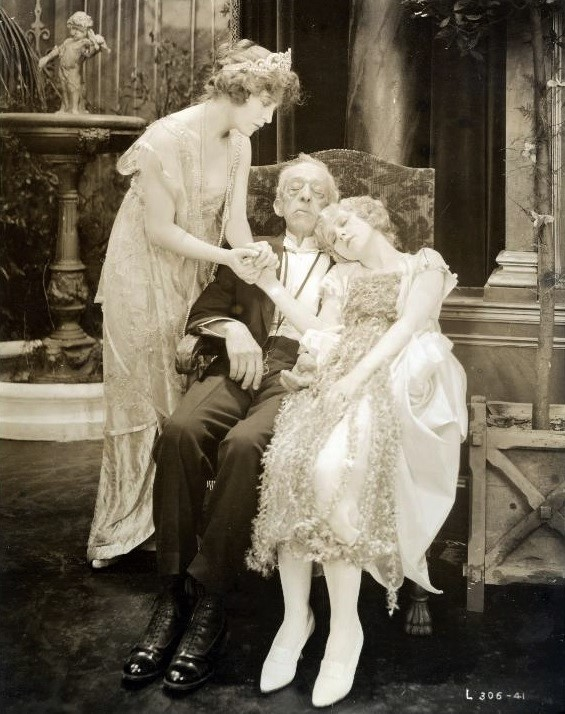 L. to R. : Violet Heming, Robert Brower & Clara Horton in the film Everywoman - publicity still (cropped)